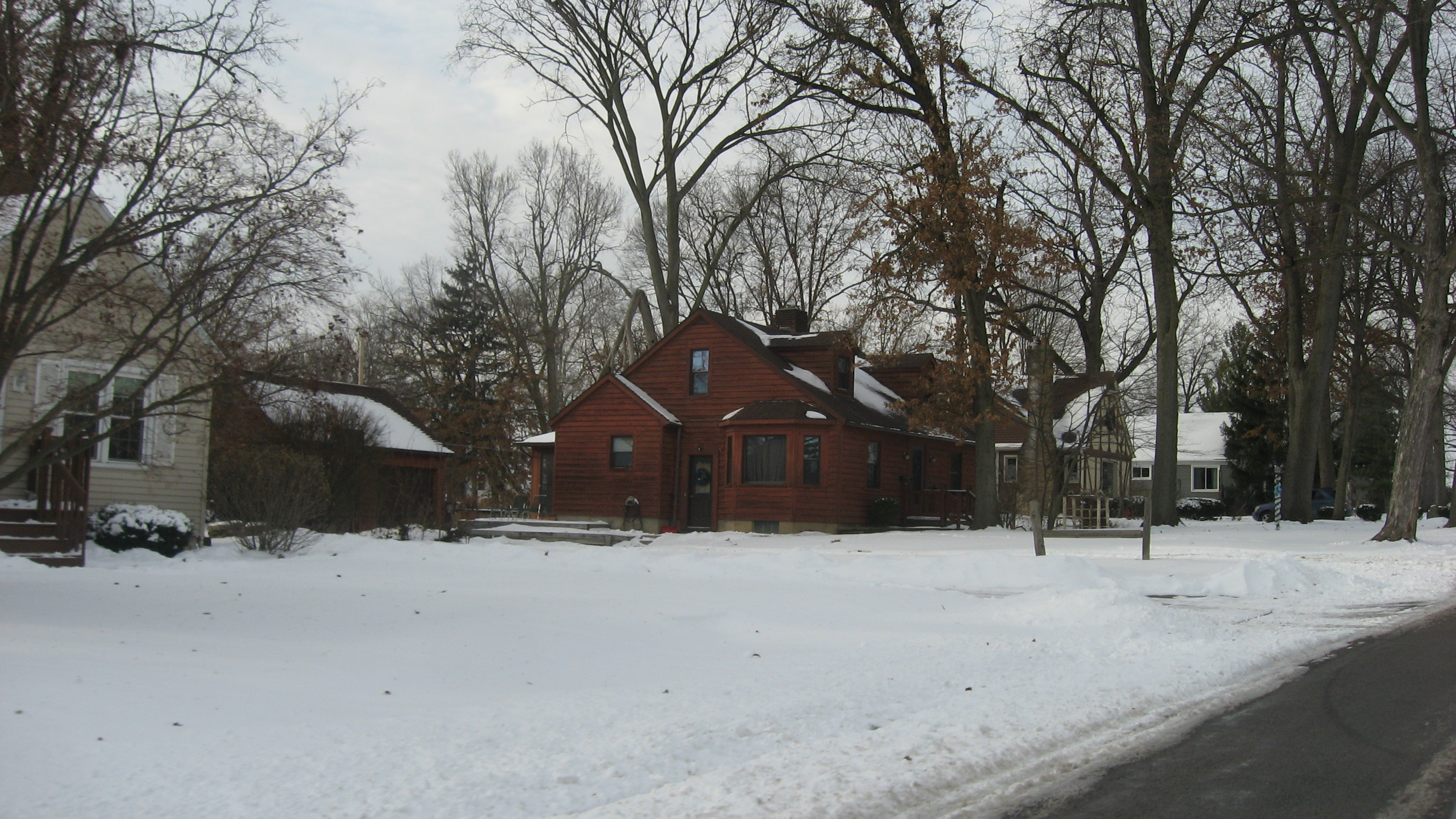 Houses on the western side of the 3300 block of Eastbrook Drive in Fort Wayne, Indiana, United States. This neighborhood is part of the Brookview-Irvington Park Historic District, a historic district that is listed on the National Register of Historic Places.